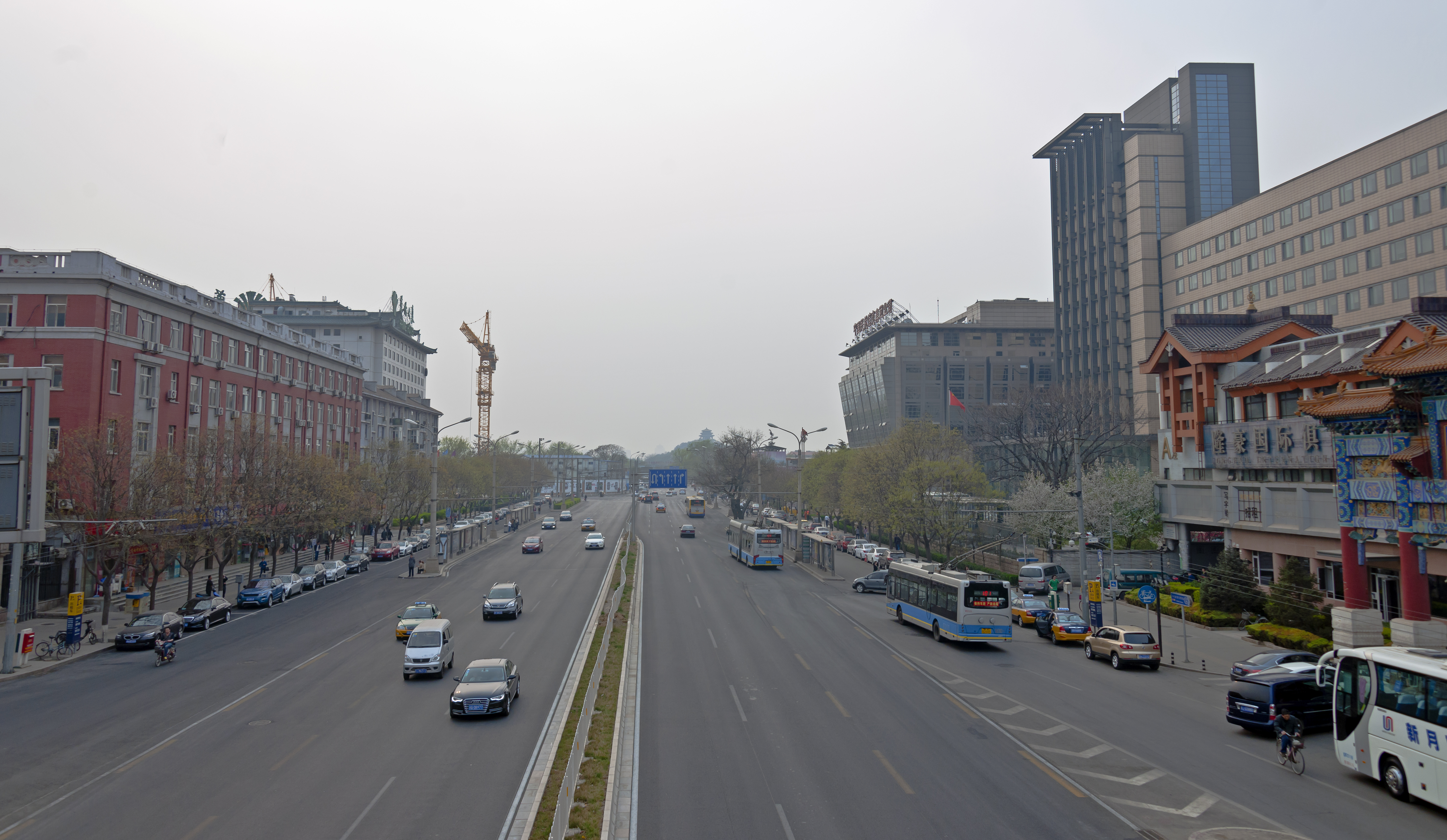 Looking west along Dongsi Street, Beijing, from a pedestrian bridge. It becomes Wusi Street at the next intersection (Wangfujing Street); Jingshan Hill can be seen in the distance, obscured slightly by smog.